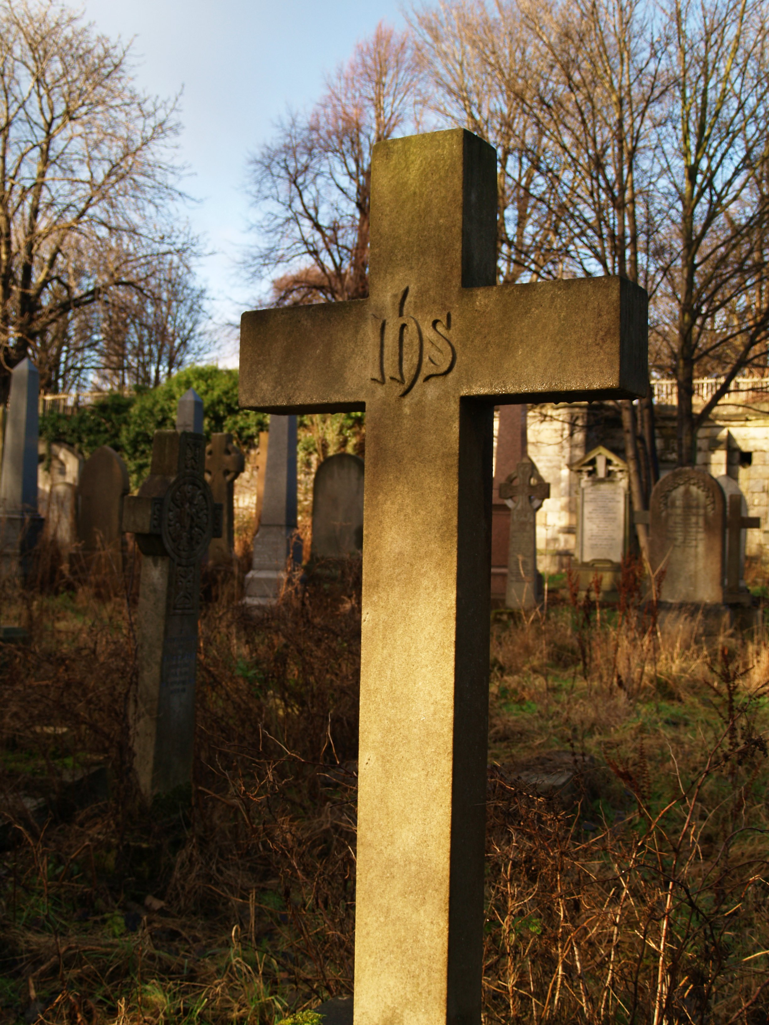 IHS, a Christogram on a gravestone in Warriston Cemetery, Edinburgh, Scotland.